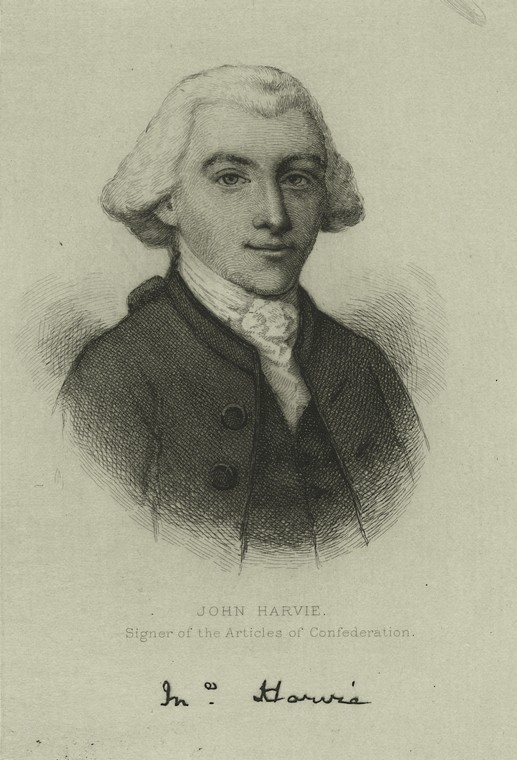 Taken from - due to its age it's in the public domain